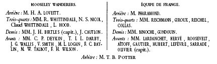 Mooseley Wanderers (representing Great Britain) v France national team, program of a rugby union match at the Summer Olympics.